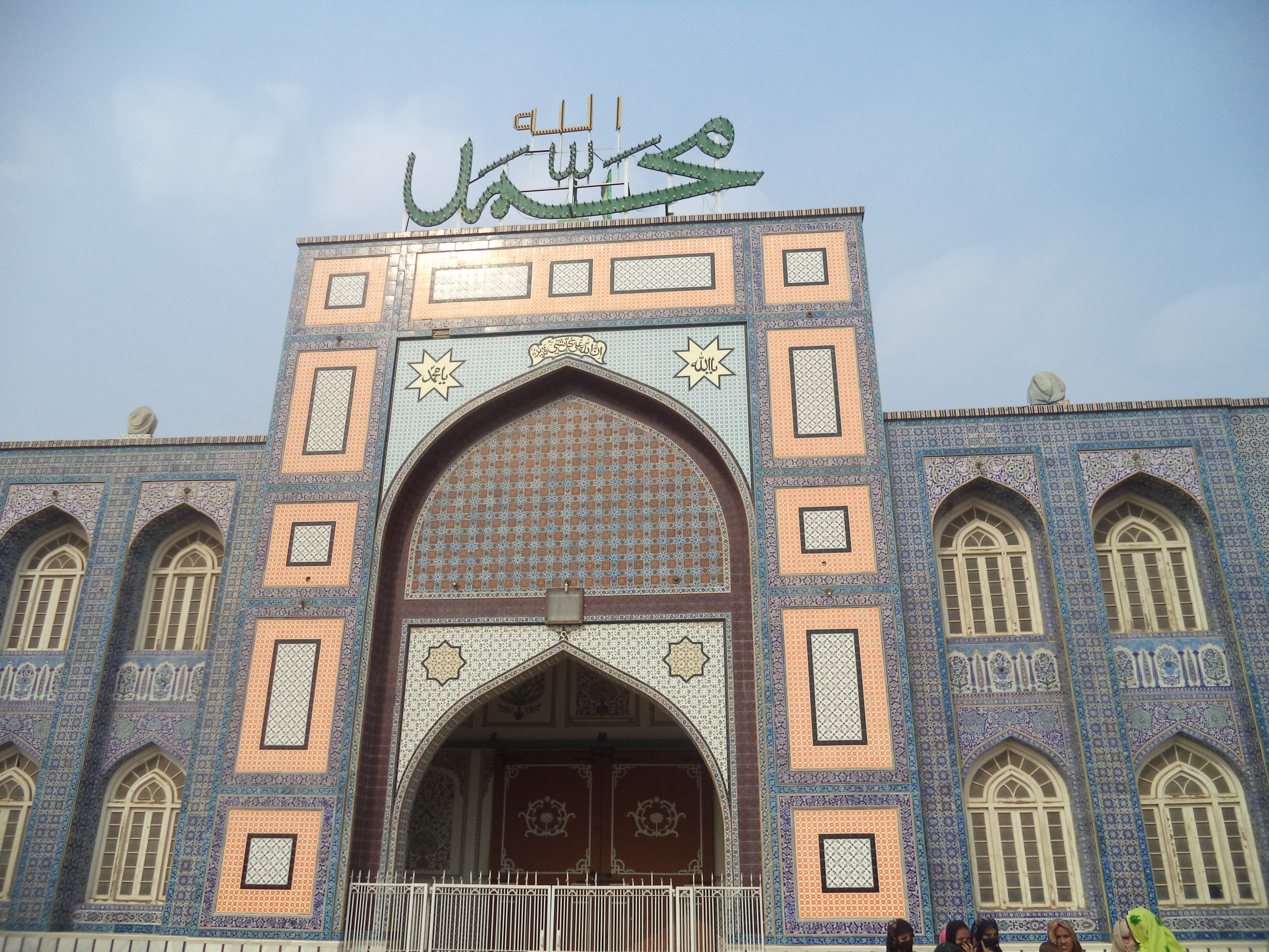 Main gate of bhong Mosque